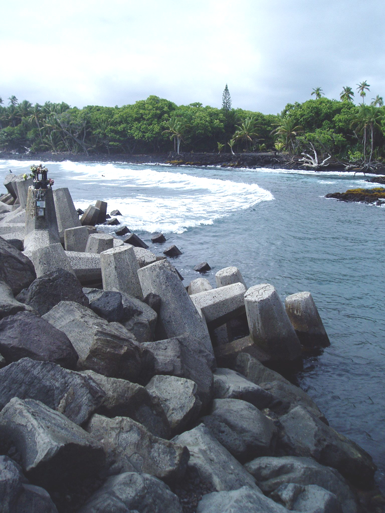 View of breakwater and beach at Isaac Hale County Park from pier — island of Hawai’i.